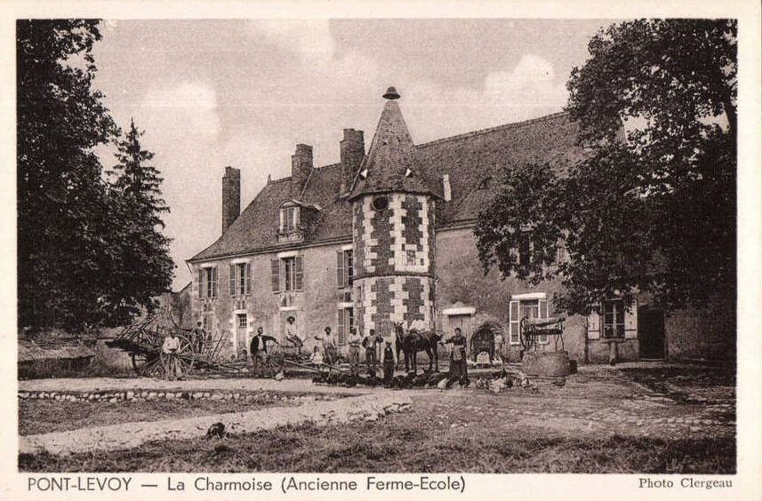 Past farm-school La Charmoise, Pontlevoy ( Loir et Cher department) France. Creation place of a famous sheep breed named Charmoise